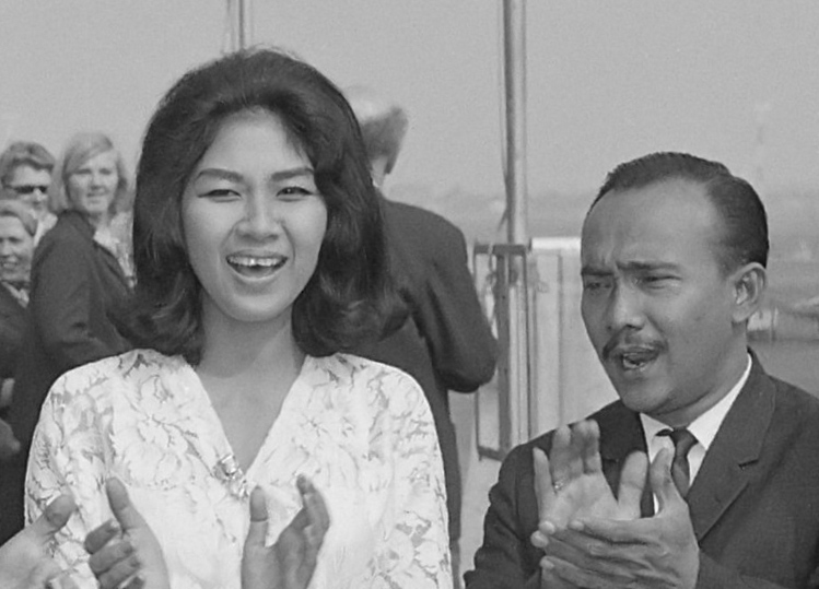 Aankomst Indonesische zanggroep "De Lansoits" op Schiphol links Rob de NijsIn Het Vrĳe Volk van 8-6-1965 staat onder de foto v.l.n.r.: Rob de Nijs (red. hier niet zichtbaar) Jack Lesmana, Titiek Poespa, Bing Slamet, Nien Lesmana en Moenif*5 juni 1965